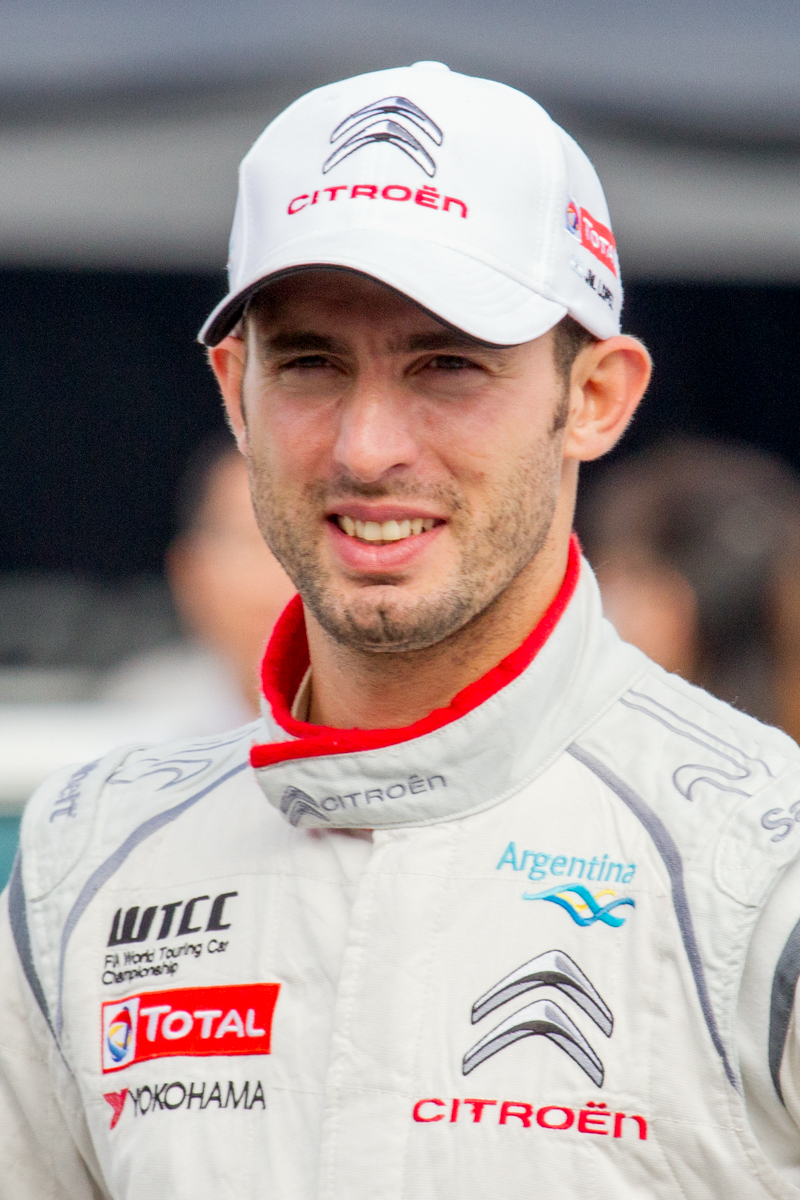 World Touring Car Championship 2014 Race of Japan: José María López (Citroën)